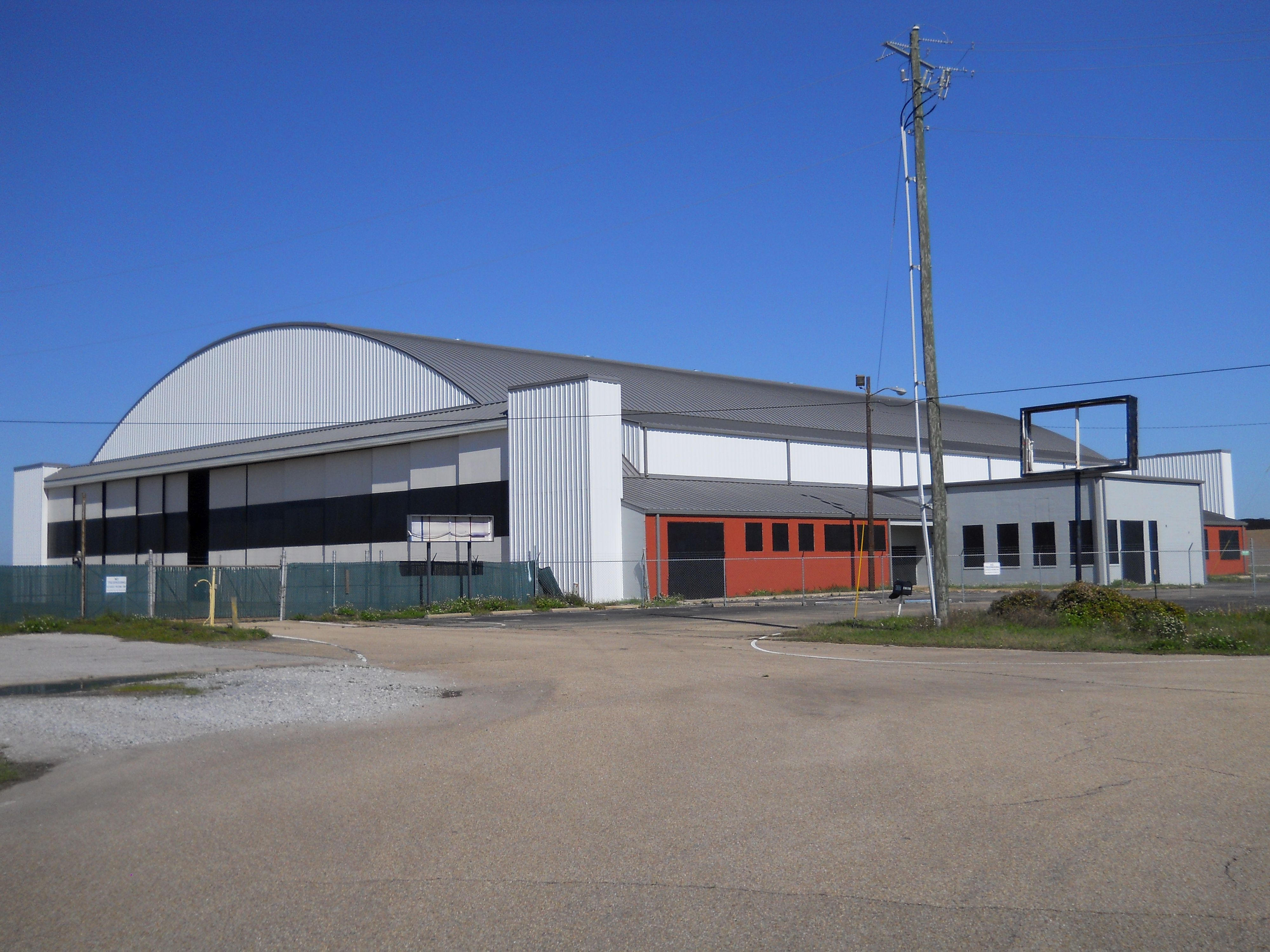 Southeast elevation of Gulfport Army Air Field Hangar, Gulfport, Mississippi, USA